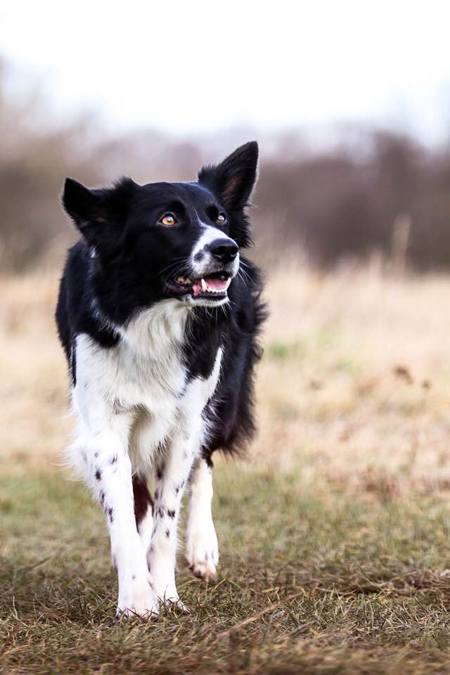 Border Collie black/white